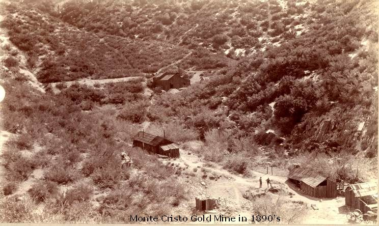 Monte Cristo Gold Mine in the 1890's courtesy of Bob Kerstein and Susana Kerstein